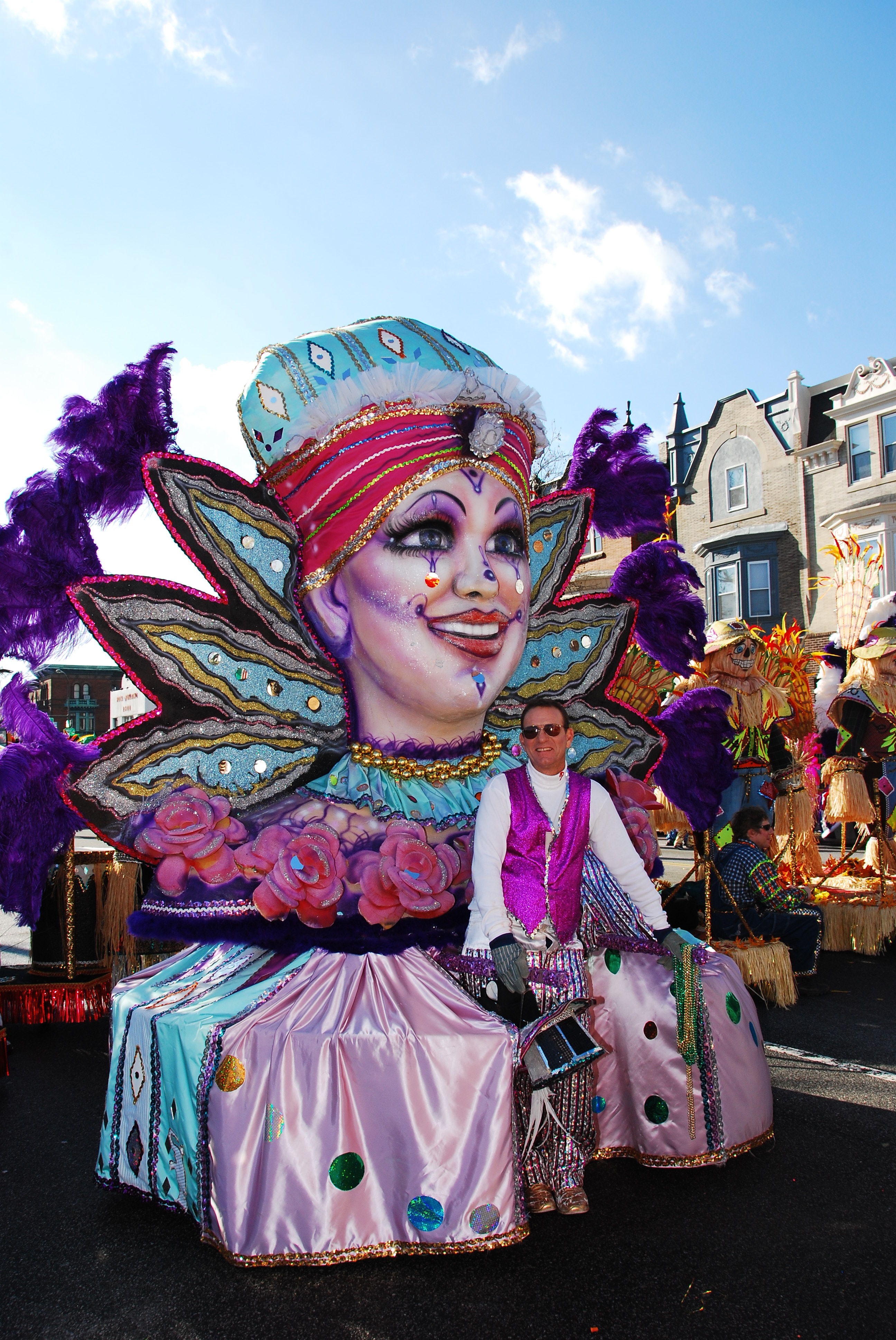 Mummers Parade, Philadelphia, USA